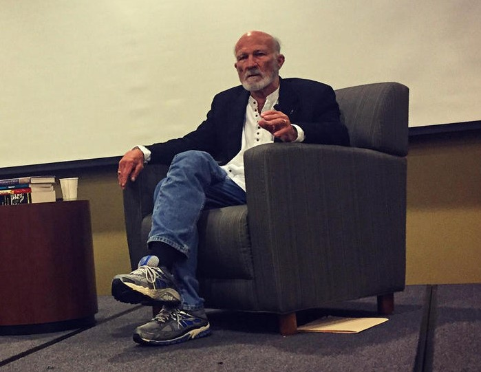 Theologian Stanley Hauerwas participates in a symposium on Sept. 17, 2015, at Augustana College in Rock Island, Illinois, the institution where he first began teaching in the late 1960s.